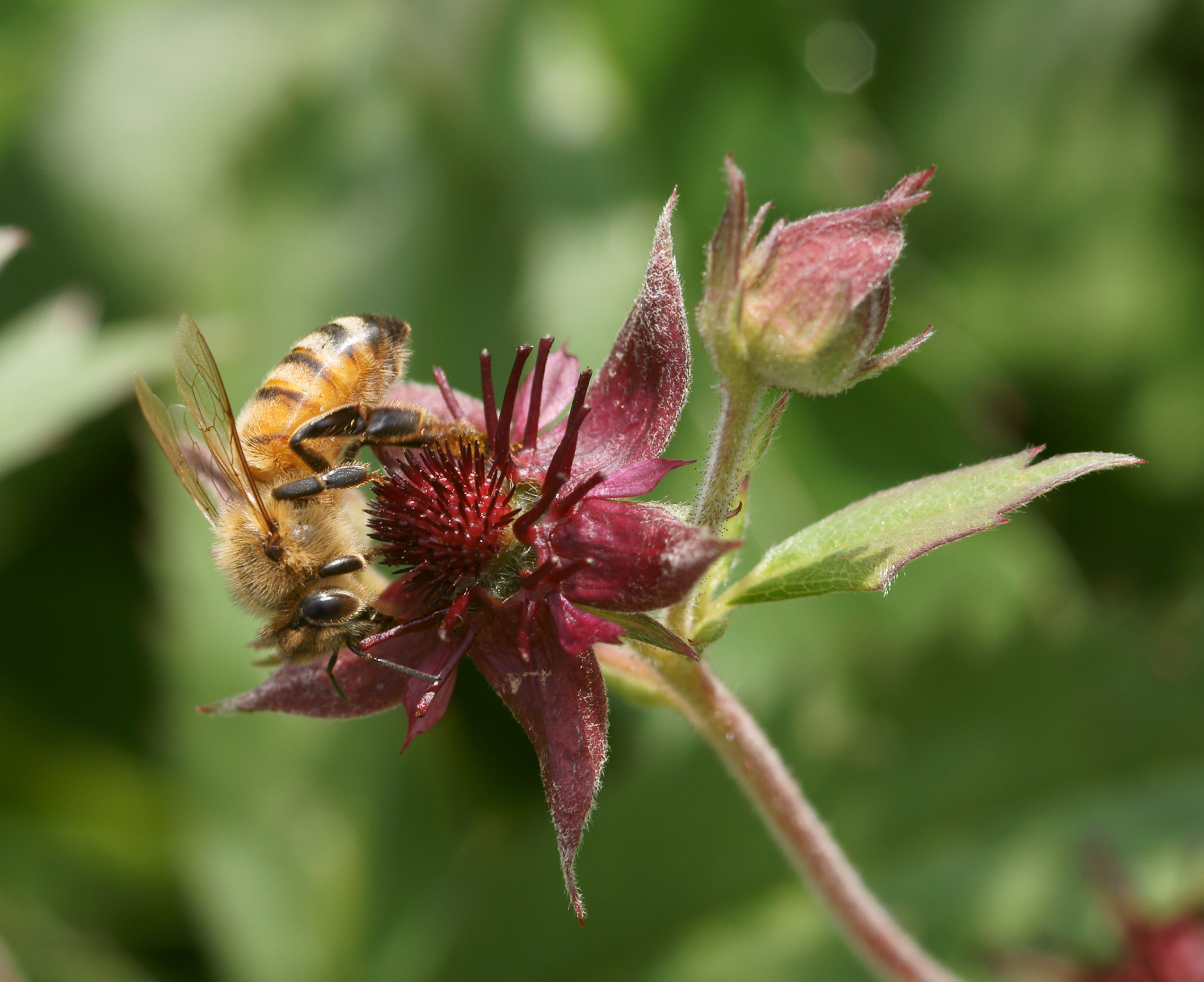 European honey bee (Apis mellifera) on Swamp Cinquefoil (Potentilla palustris)